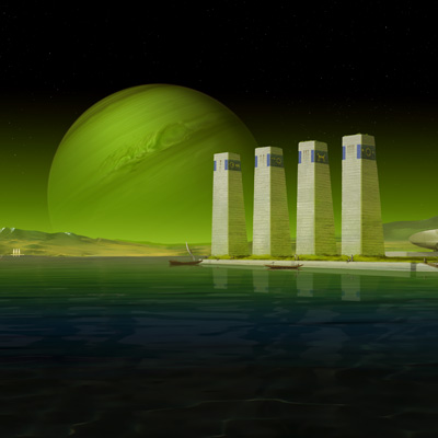 GATEPORT - digital painting by German scifi artist Frank Lewecke. Spaceport, Diskwood and alien snailbug at Gateport 4. Vacation in space and postcards from alien worlds.